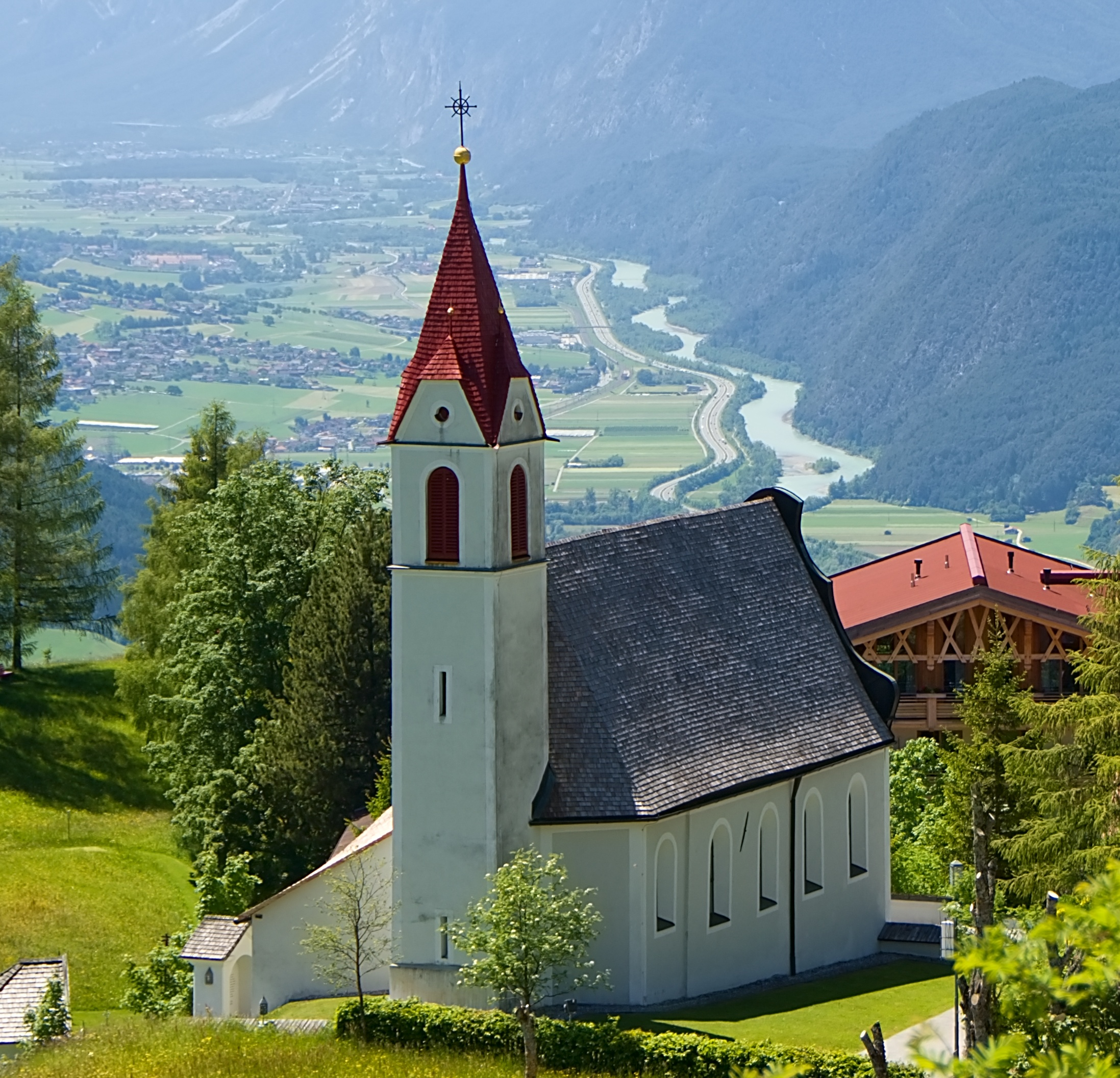 Church in Telfs - Mösern, Tyrol, Austria.